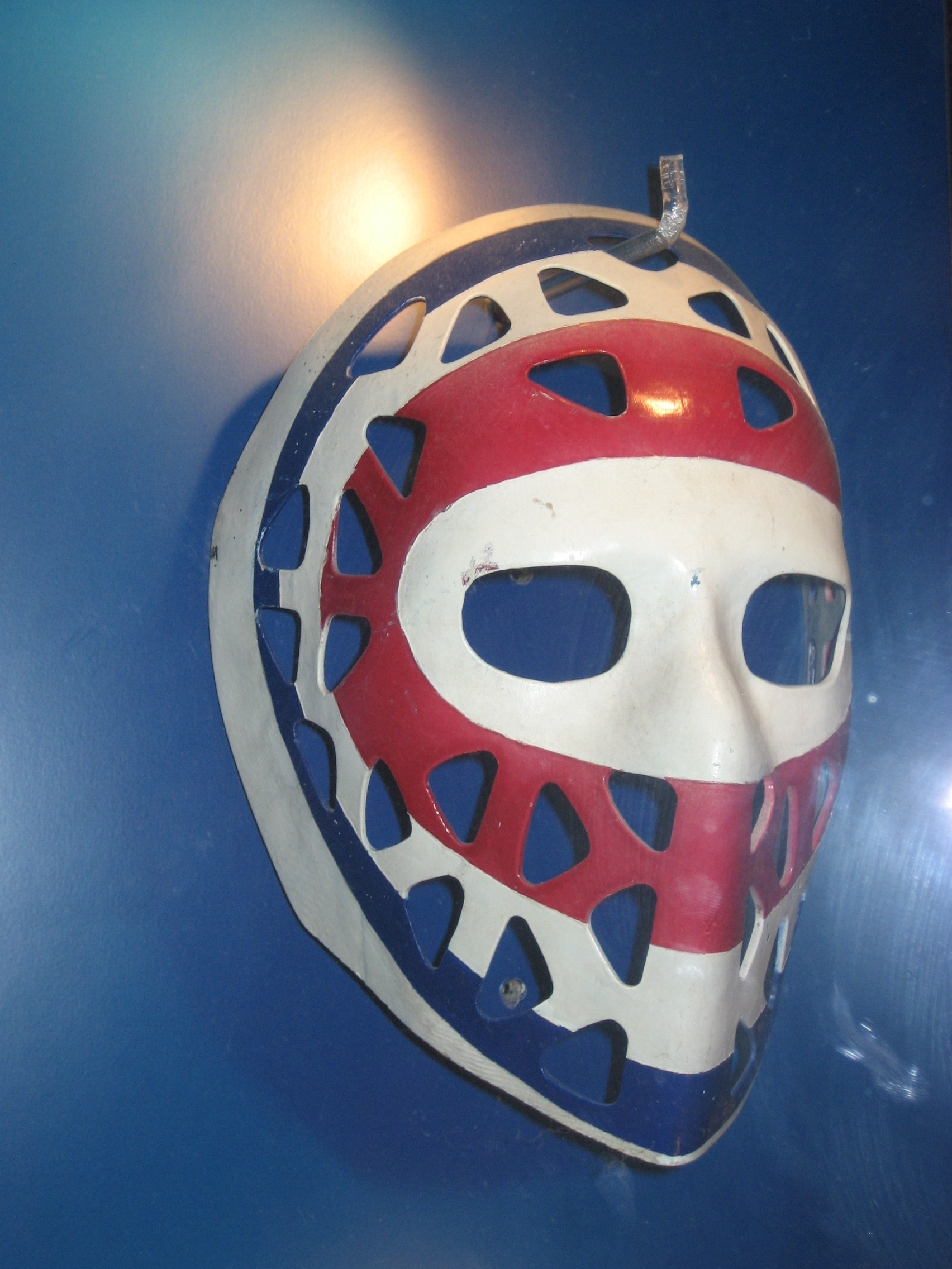 Ken Dryden goalie mask, Hockey Hall-of-Fame